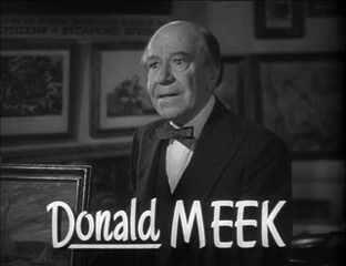 Donald Meek in The Thin Man Goes Home, by Richard Thorpe (1945)